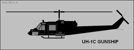 UH-1C gunship model of the UH-1 Iroquois helicopter